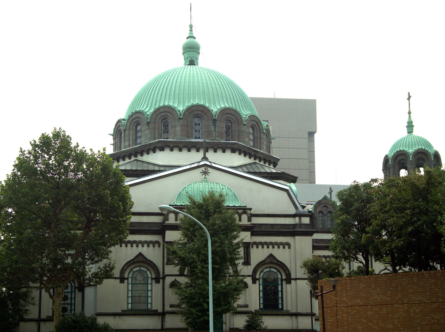 Holy Resurrection Cathedral 東京復活大聖堂, known as Nikorai-do ニコライ堂 named after Archbishop Nikolai of Japan, Chiyoda-ku Tokyo, Japan. It is the cathedral of Japan Orthdox Church, a branch of Eastern Orthodox and the see of the ARchbishop of Tokyo, hence of Japan. I contribute my rights in this photo to the public domain.